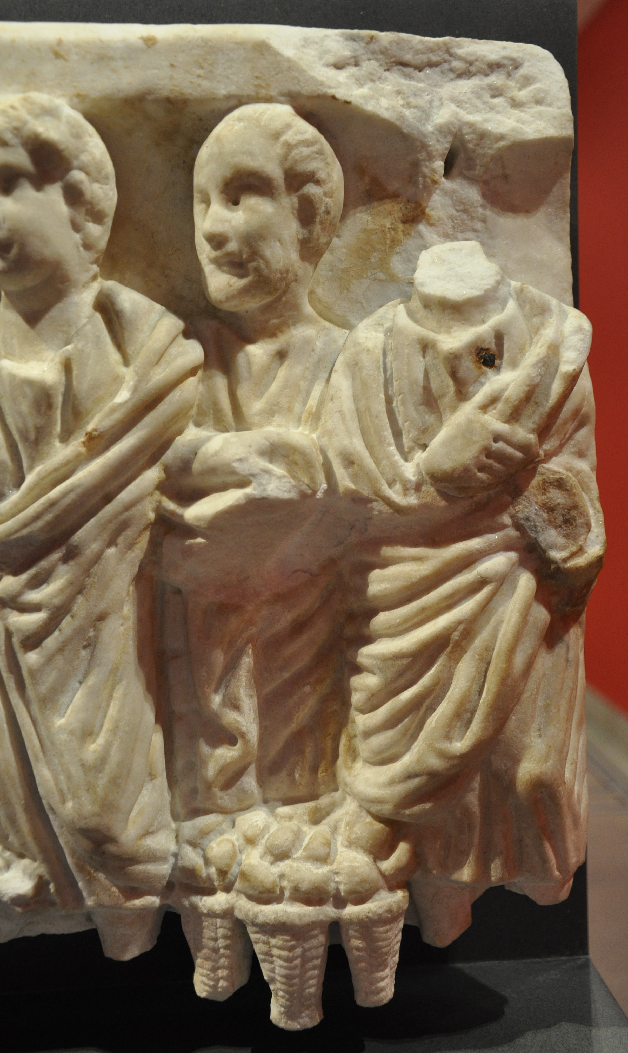 Sarcophagus with biblical scenes; c. 330 AD; marble; Museum: Liebieghaus, Frankfurt am Main, Inv. No. 1501. Detail: Feeding the Multitude (The loaves and the fishes).